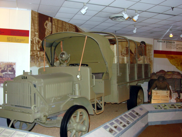 Liberty 2nd series Class B Standardized Military 'Liberty' Truck being loaded with supplies (from US Army Transportation Museum display).